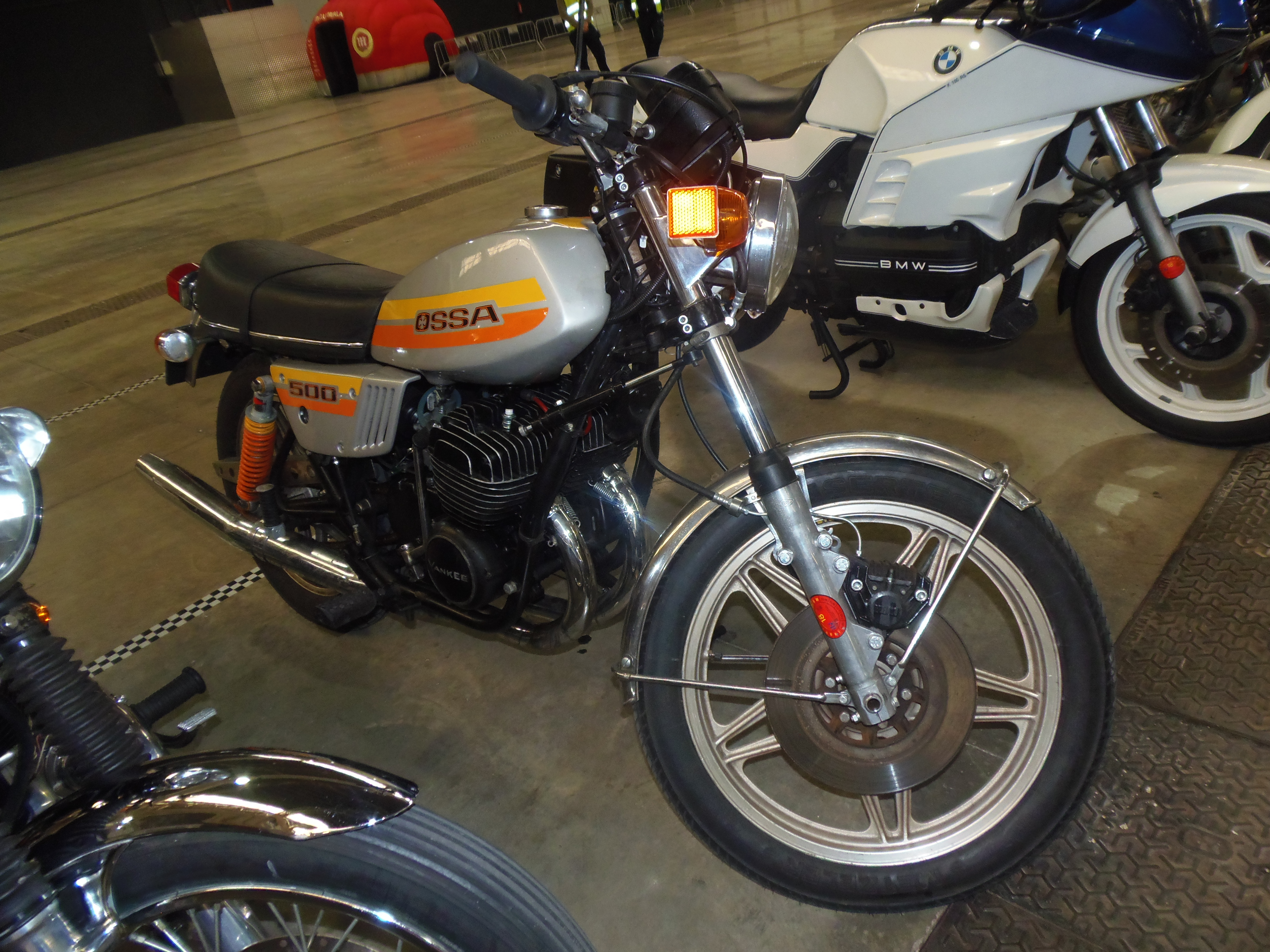 OSSA Yankee 500cc (1976), with a Yankee engine made in USA.